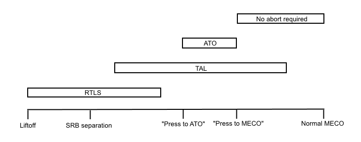 Space Shuttle abort modes available depending on SSME failure time. Adapted from